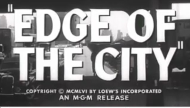 Screenshot from trailer for Edge of the City